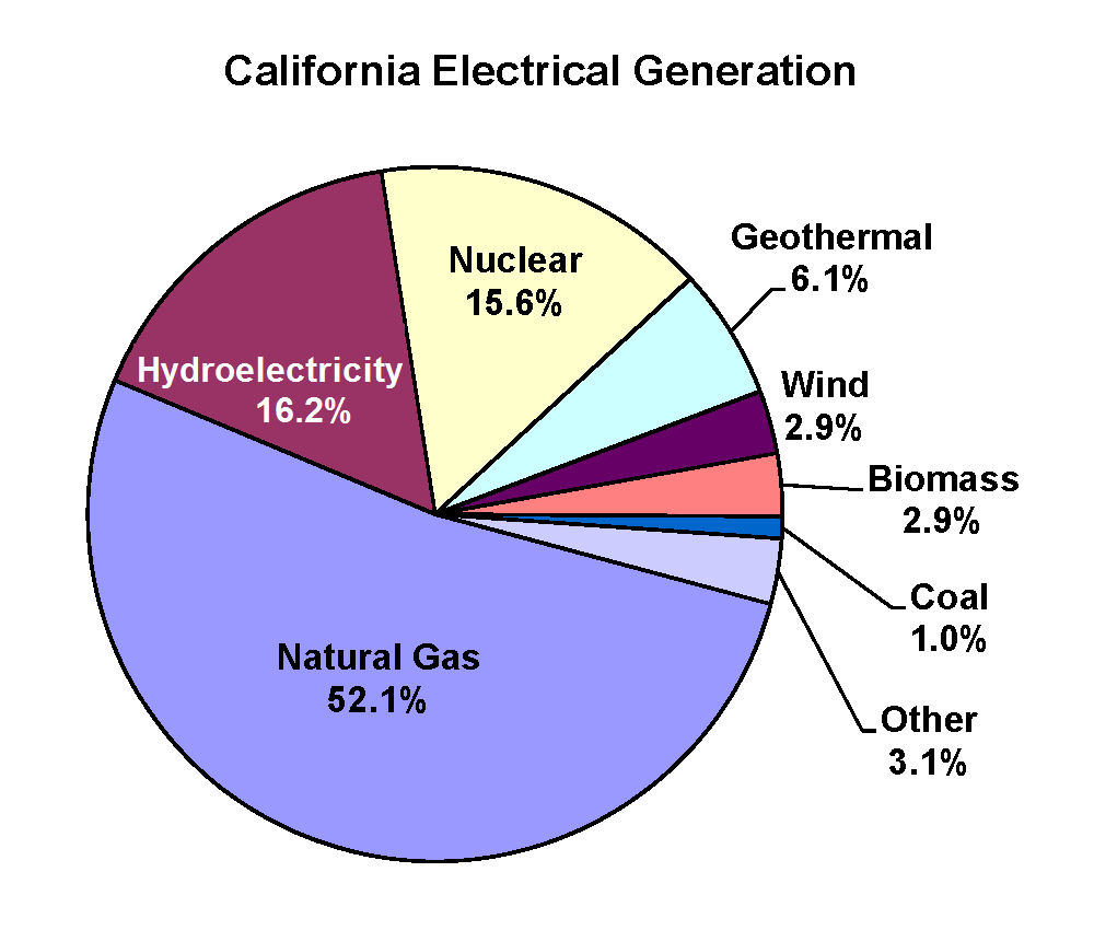 California electricity generation by source, 2010 (data from US EIA)